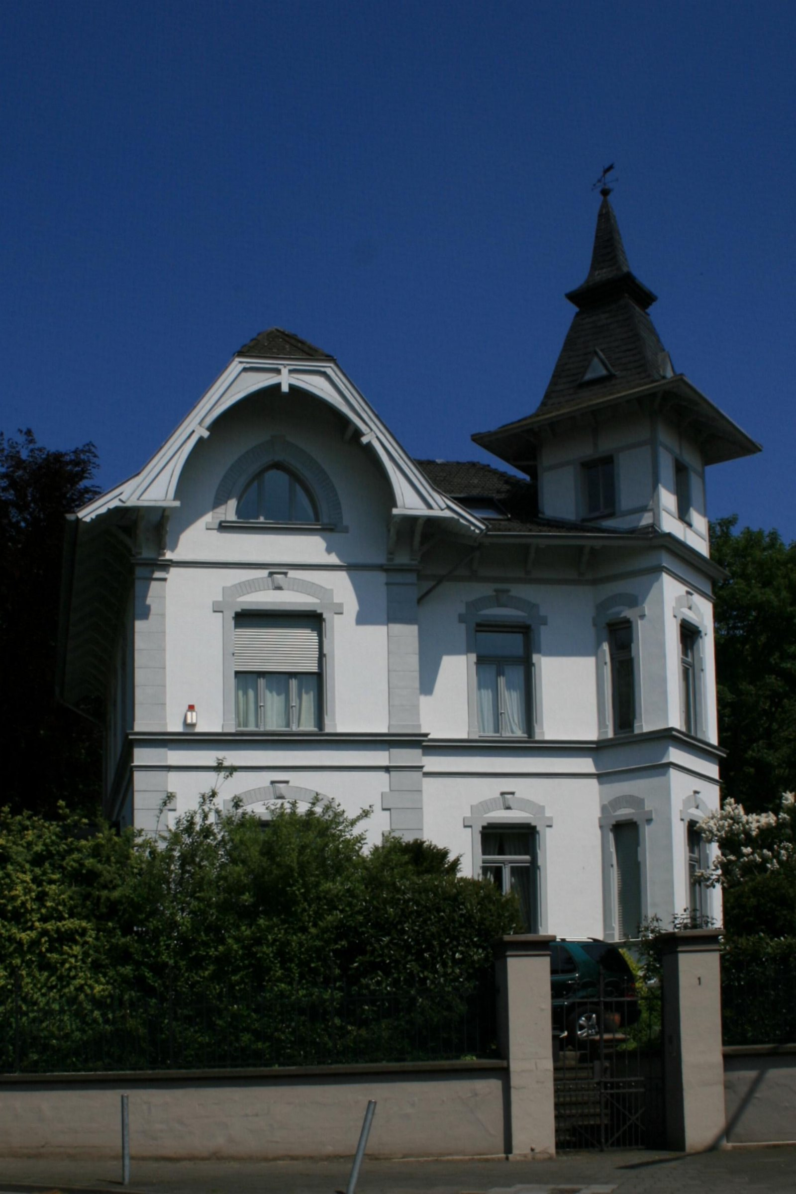 Cultural heritage monument No. M 035 in Mönchengladbach